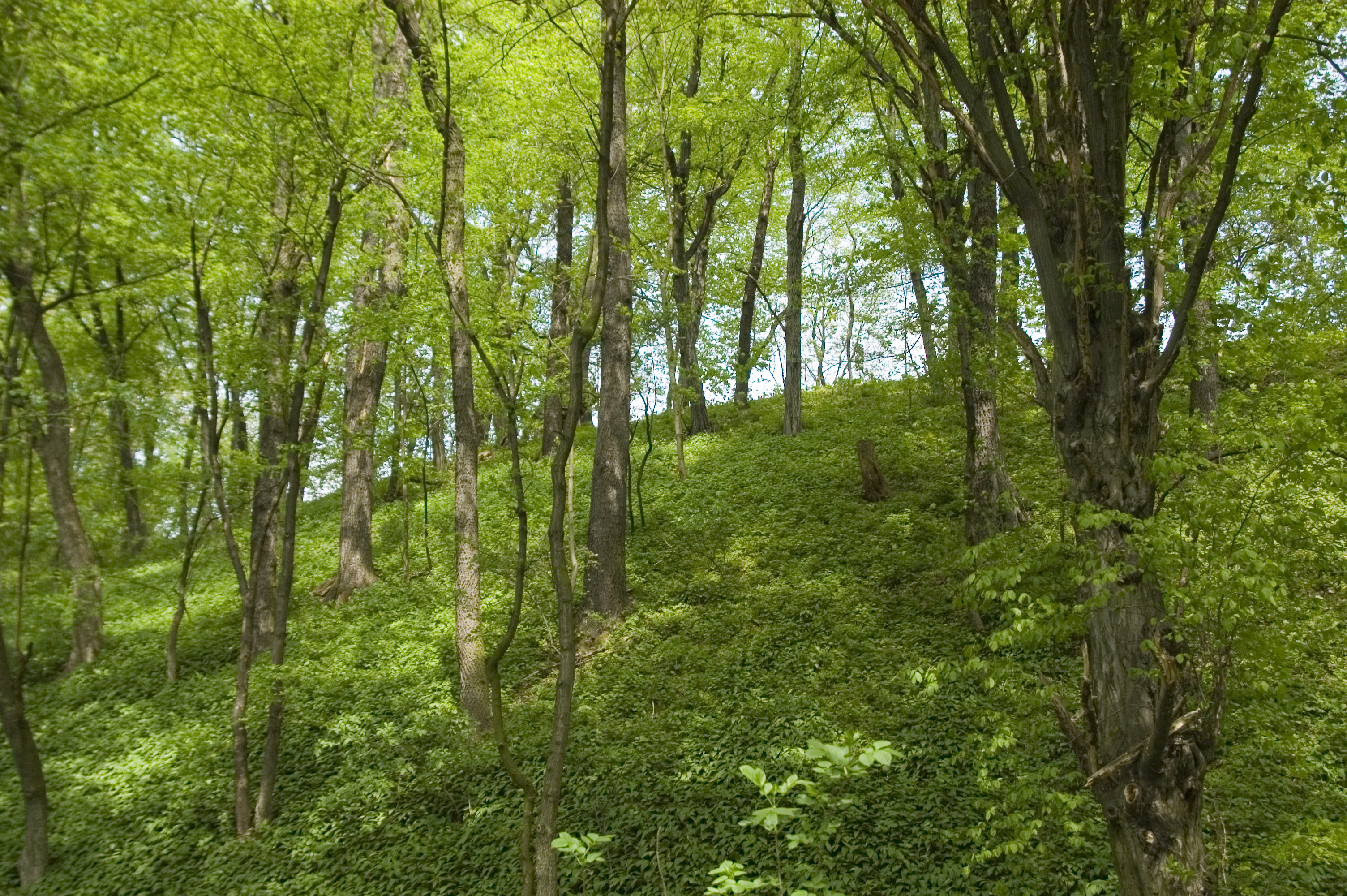 Natural monument Nemošická stráň, Pardubice District, Czech Republic